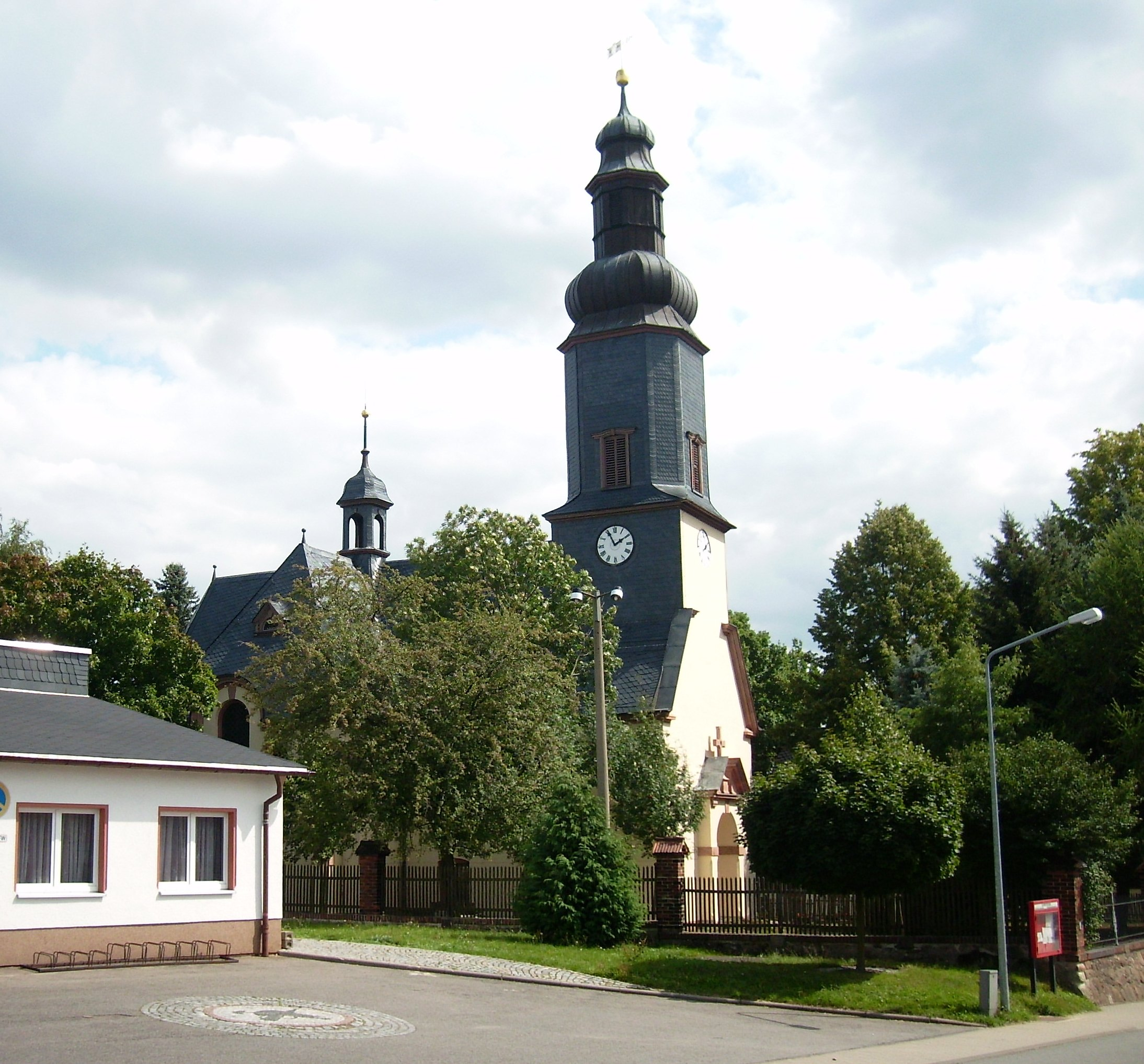 Church in Altmittweida (Mittelsachsen district, Saxony)